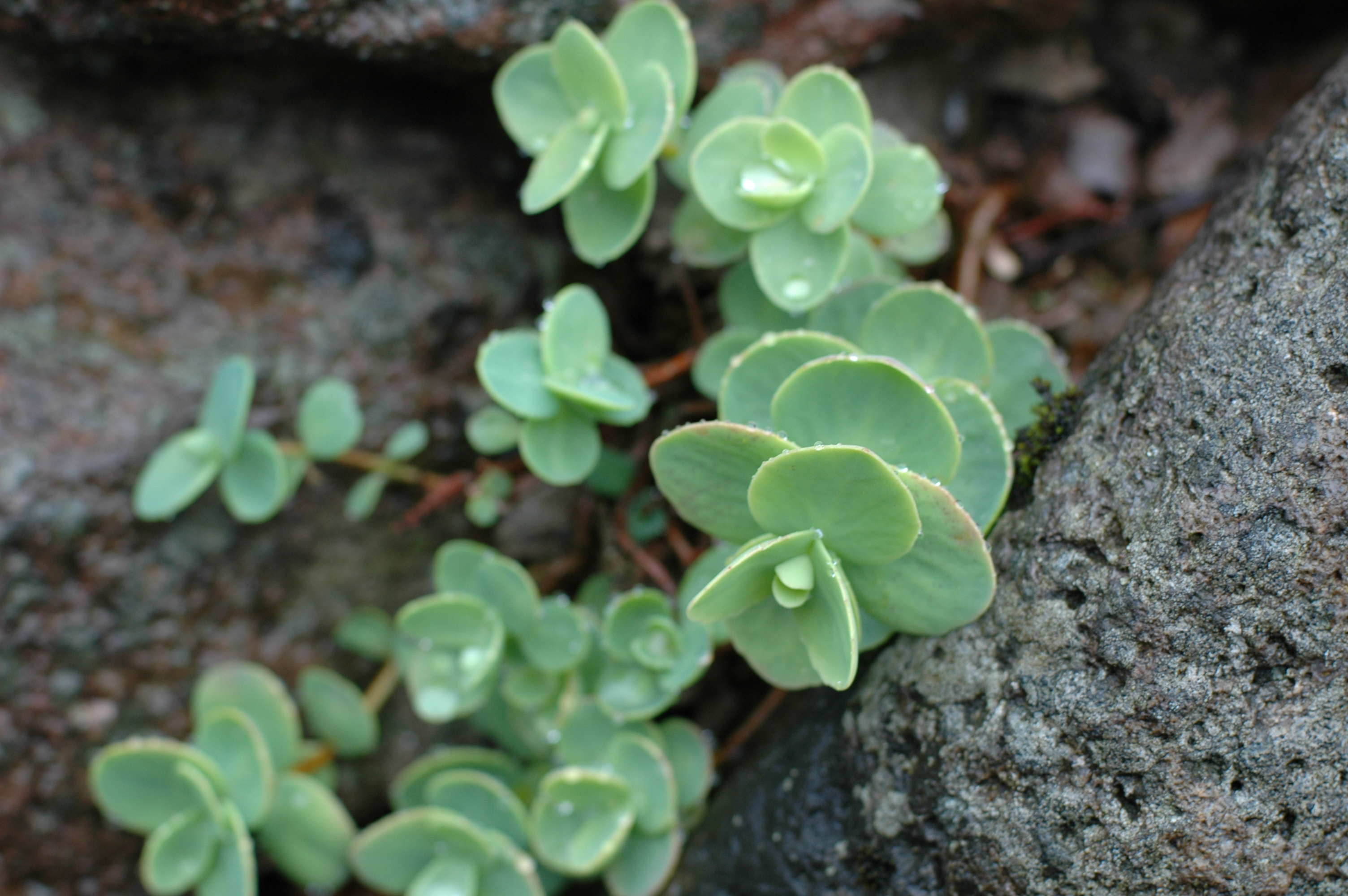 Habit of Hylotelephium ewersii (syn. Sedum ewersii) at Rennsteiggarten near Oberhof/Thuringia, Germany